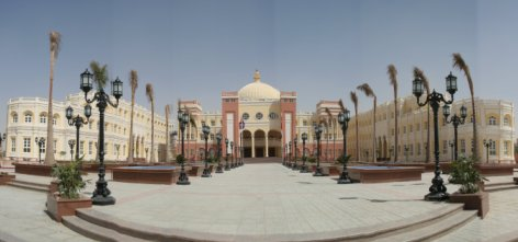 Author: Mark Everitt Picture: The British University in Egypt